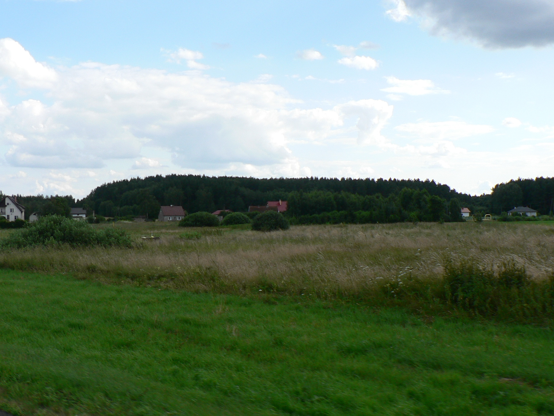 Litwinki near Nidzica